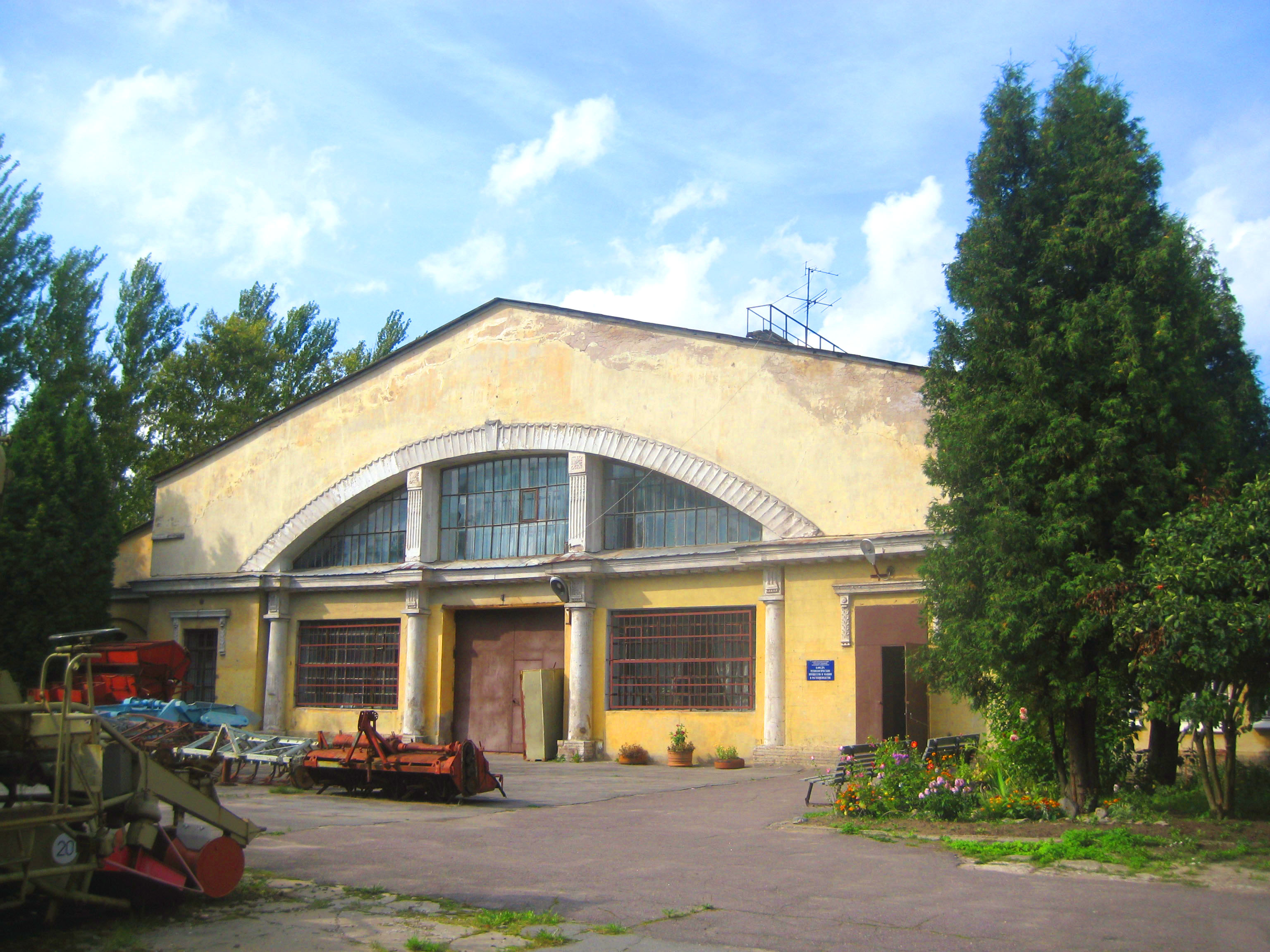 Chair "The technological processes and machines in plant growing" city Pushkin, Saint-Petersburg